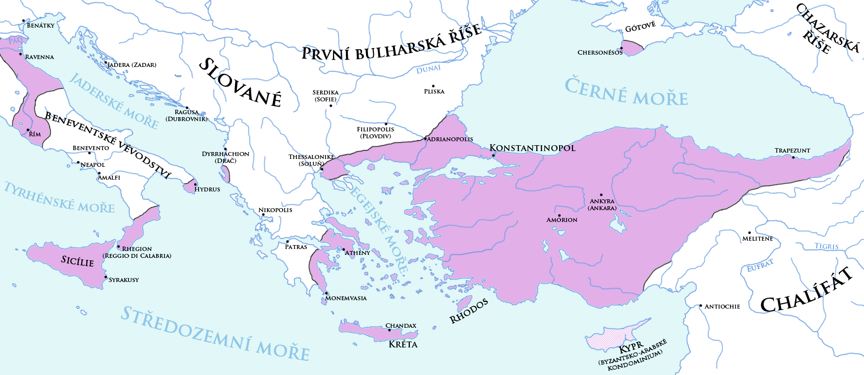 Byzantine Empire in the end of the 7th century; in Czech language